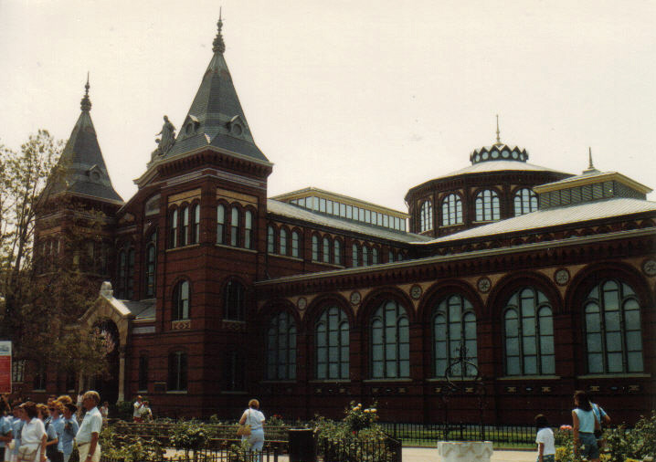 Picture of my own, Piotr Domaradzki, Washington D.C., 1998